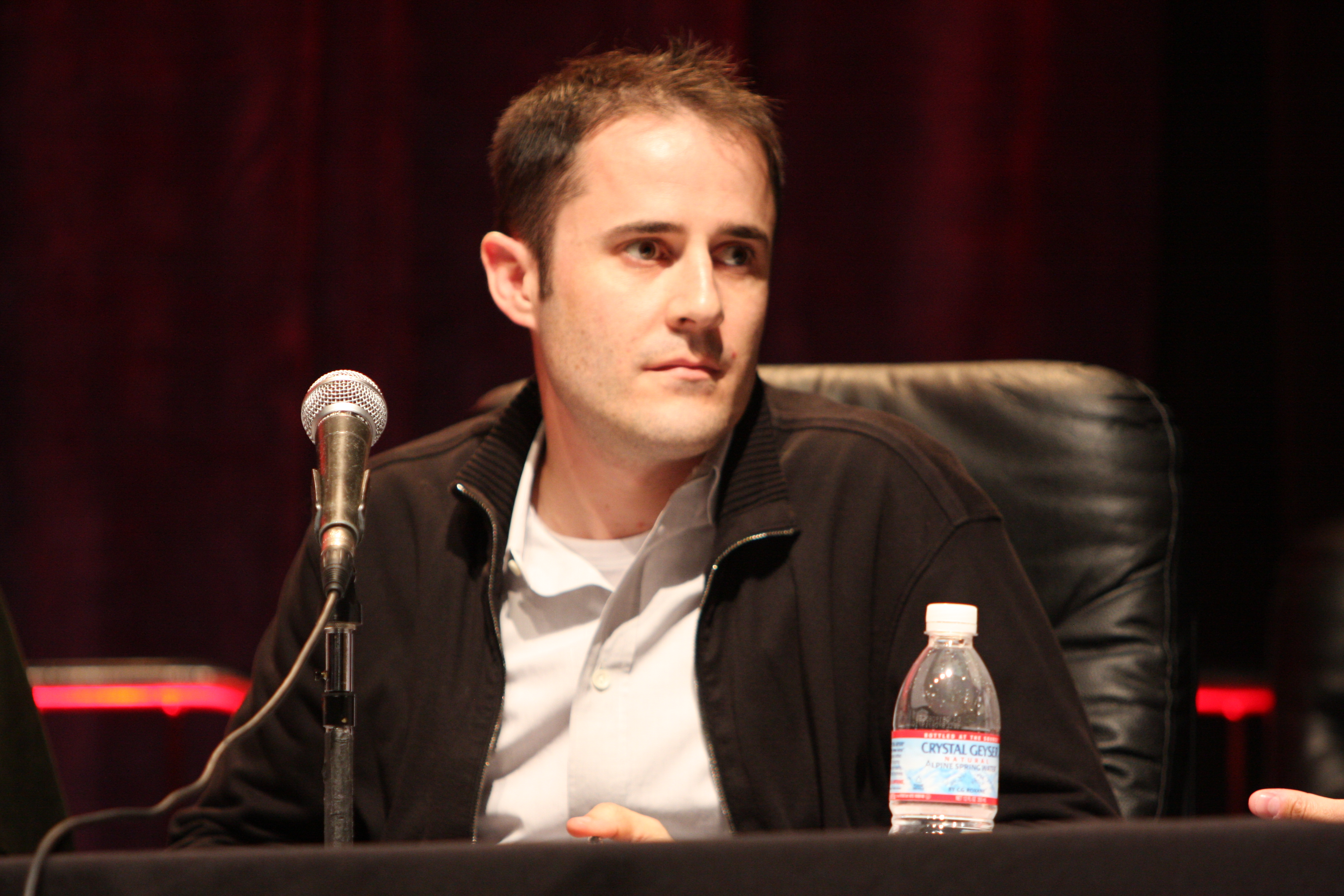 Evan Williams, co-founder of Twitter at TechCrunch50. (CC) Brian Solis, and . Feel free to use this picture. Please credit as shown.